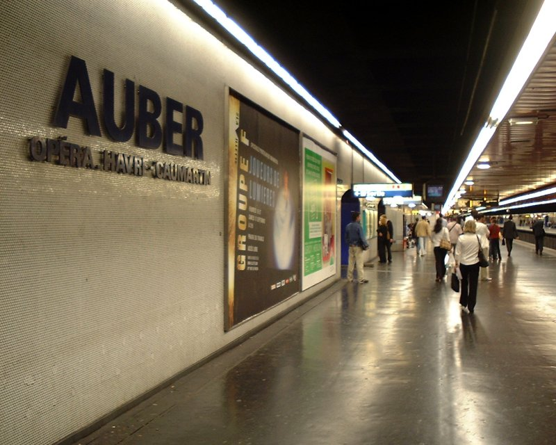 Platform of Auber RER station, Paris, September 2005.